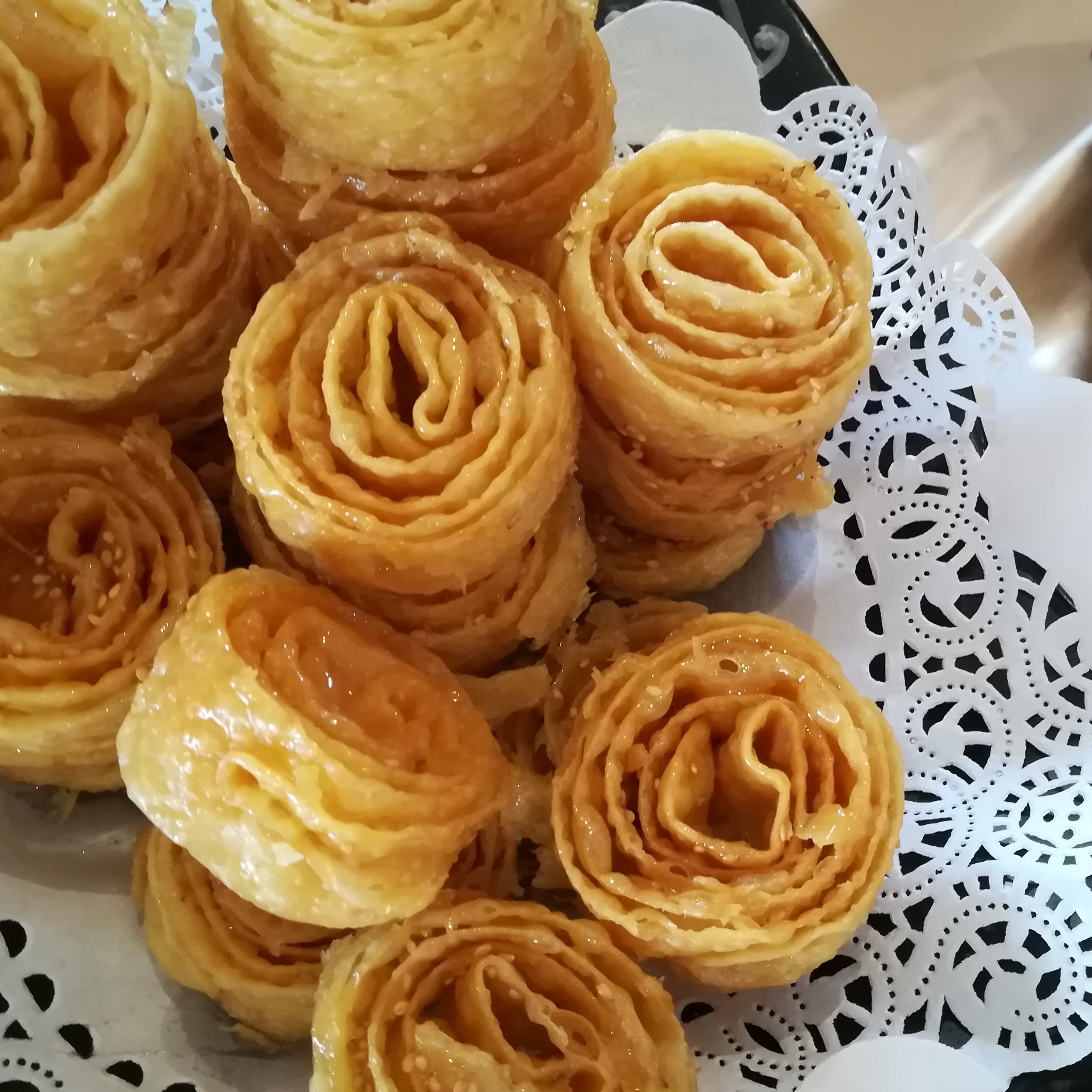 "Oudnin el kadhi" or "oreilles de juge" (litt. "Judge's ears), a Tunisian pastry